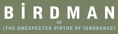 Birdman logo